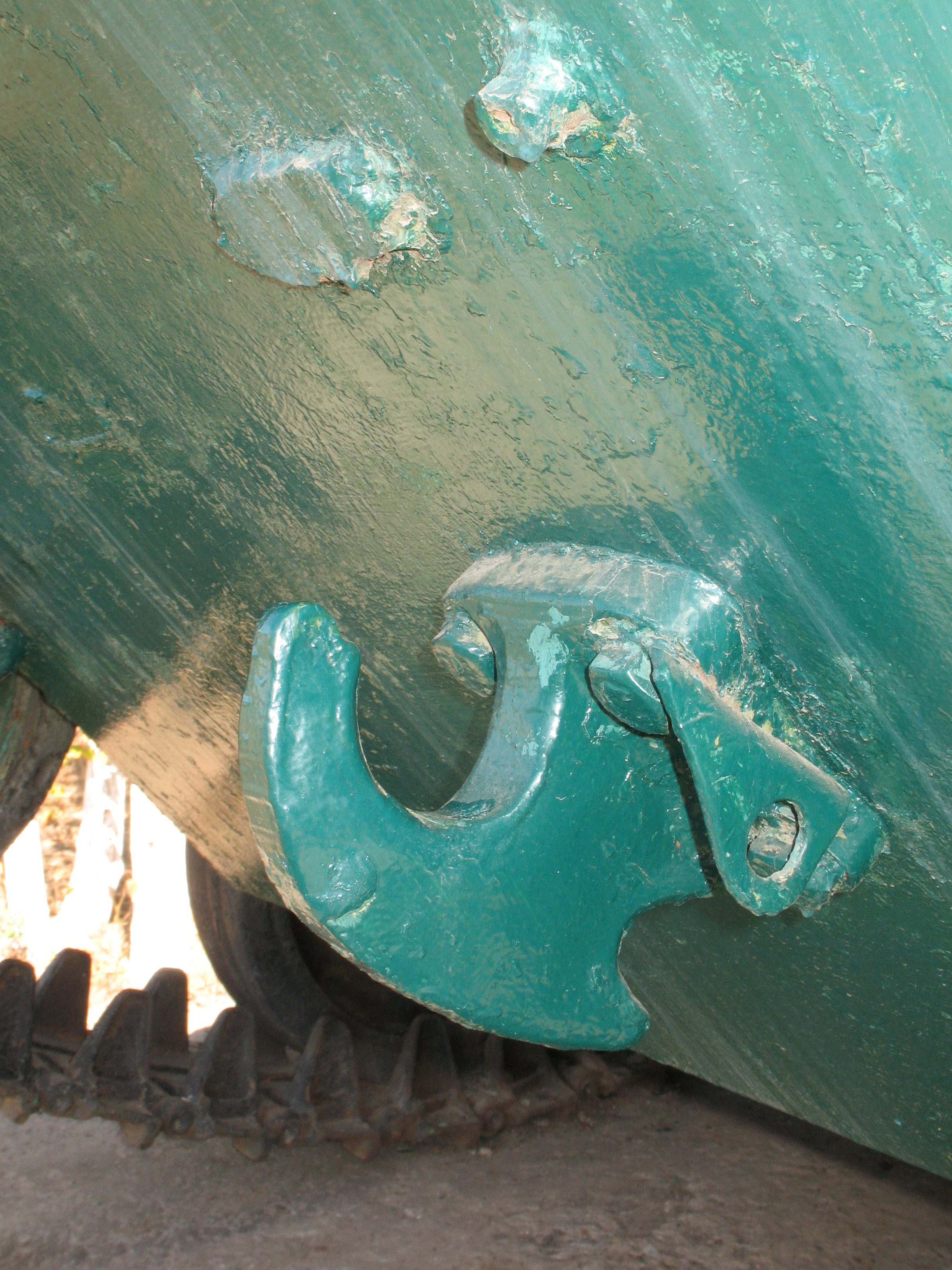 T-70М Soviet WWII tank. Monument in Solonitsevka.